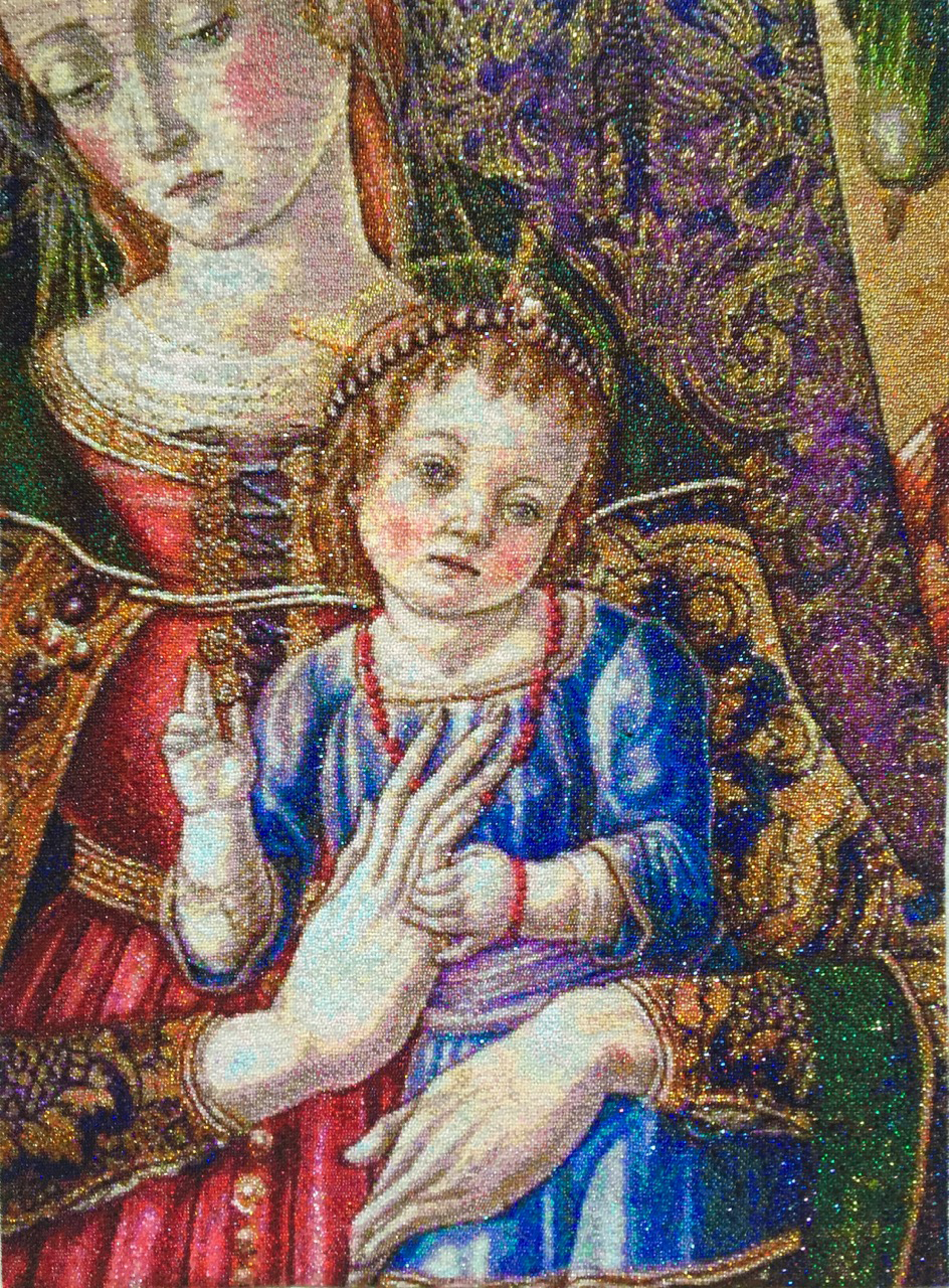 beadwork adaptation of Vittore Crivellu